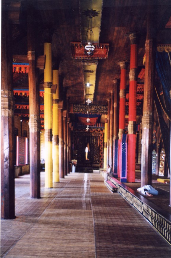 Photo by MichaelJLowe of the interior of the Pagaruyung Palace, Batusangkar, Indonesia.